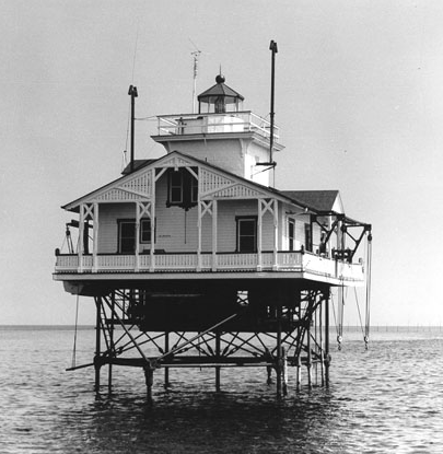 Undated United States Coast Guard photograph of Tue Marshes Light